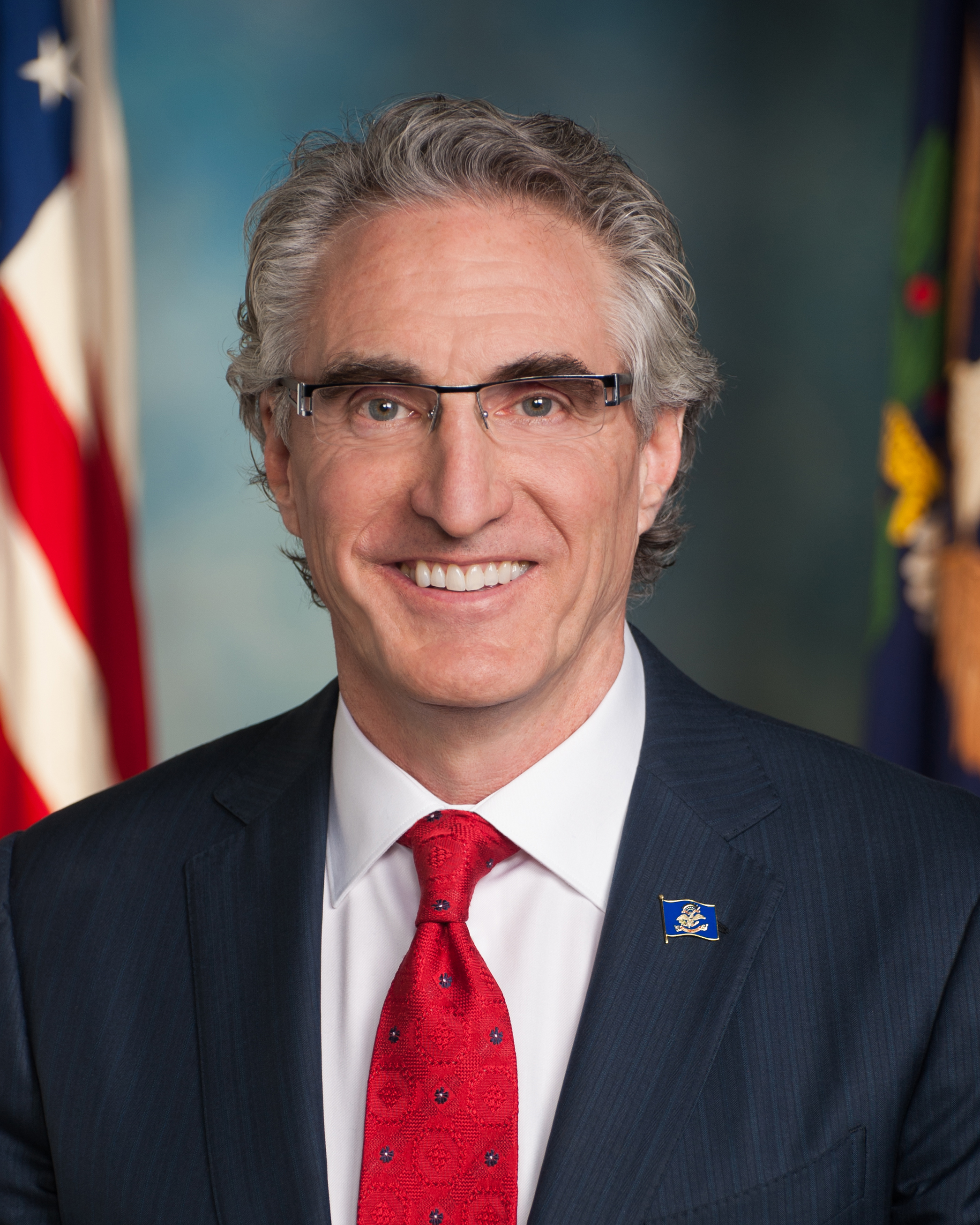 Official portrait of North Dakota Governor Doug Burgum